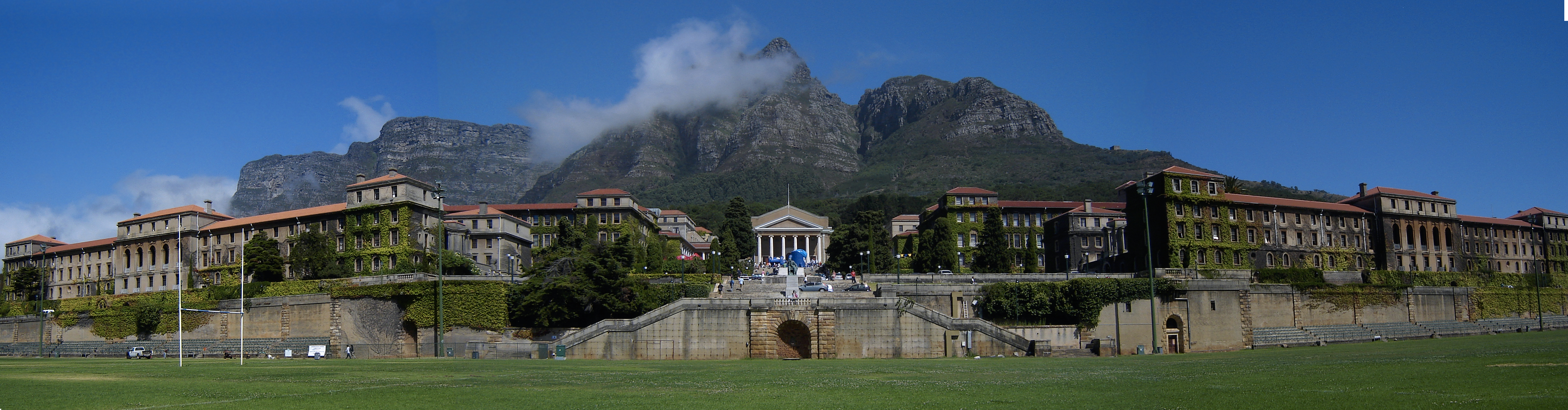 A cropped version of File:University Of Cape Town.jpg by Mwgielink.